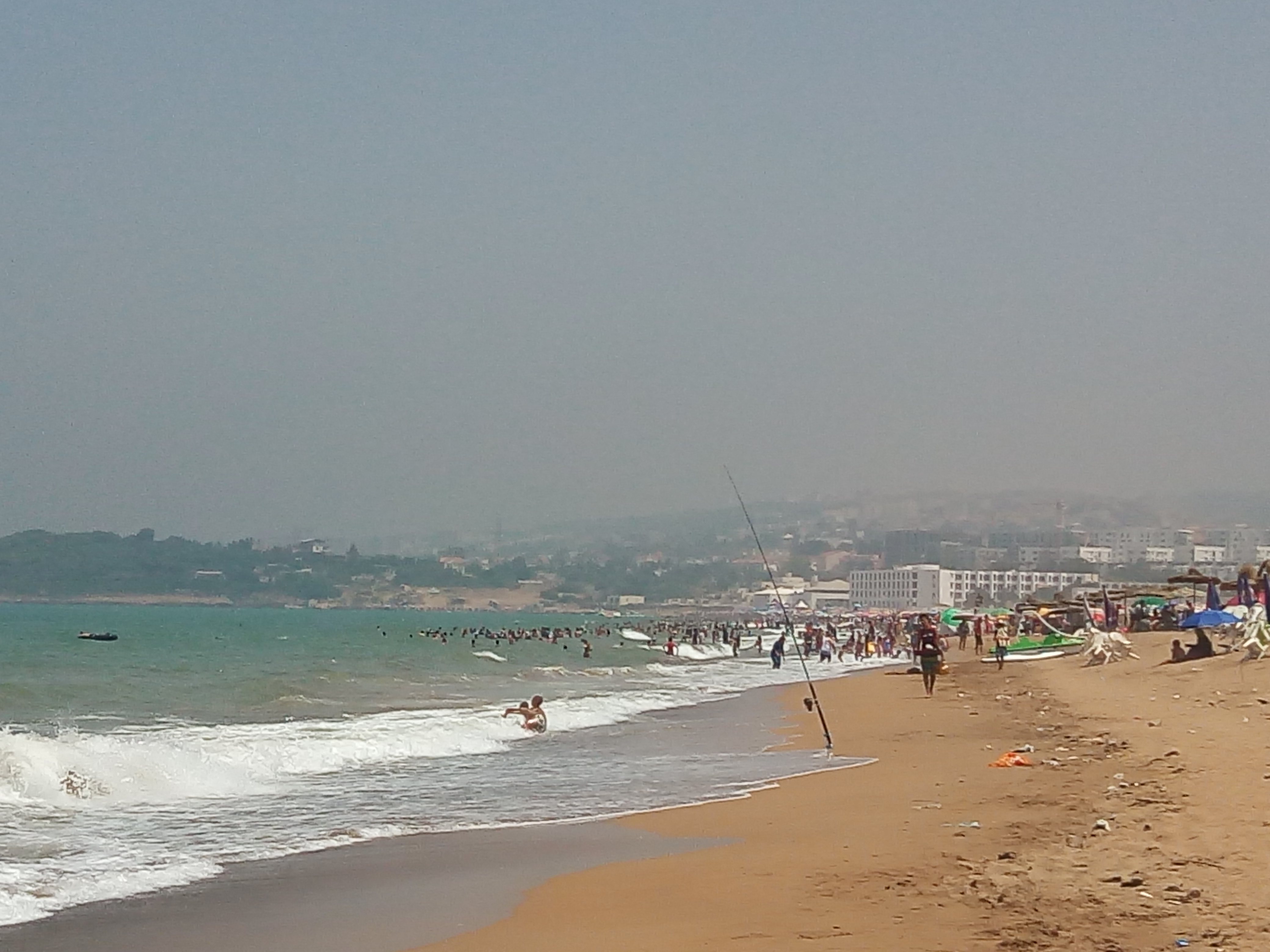 Complexe Touristique de Matarès Picture from Plage Chenoua